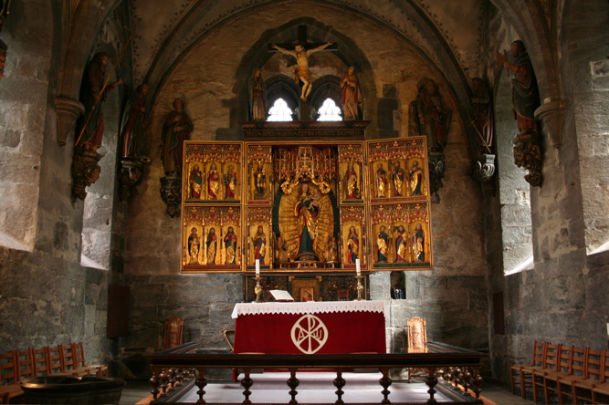 Interior from Mariakirken in Bergen. The photogtapher - Morten Dreier - must always be credited.